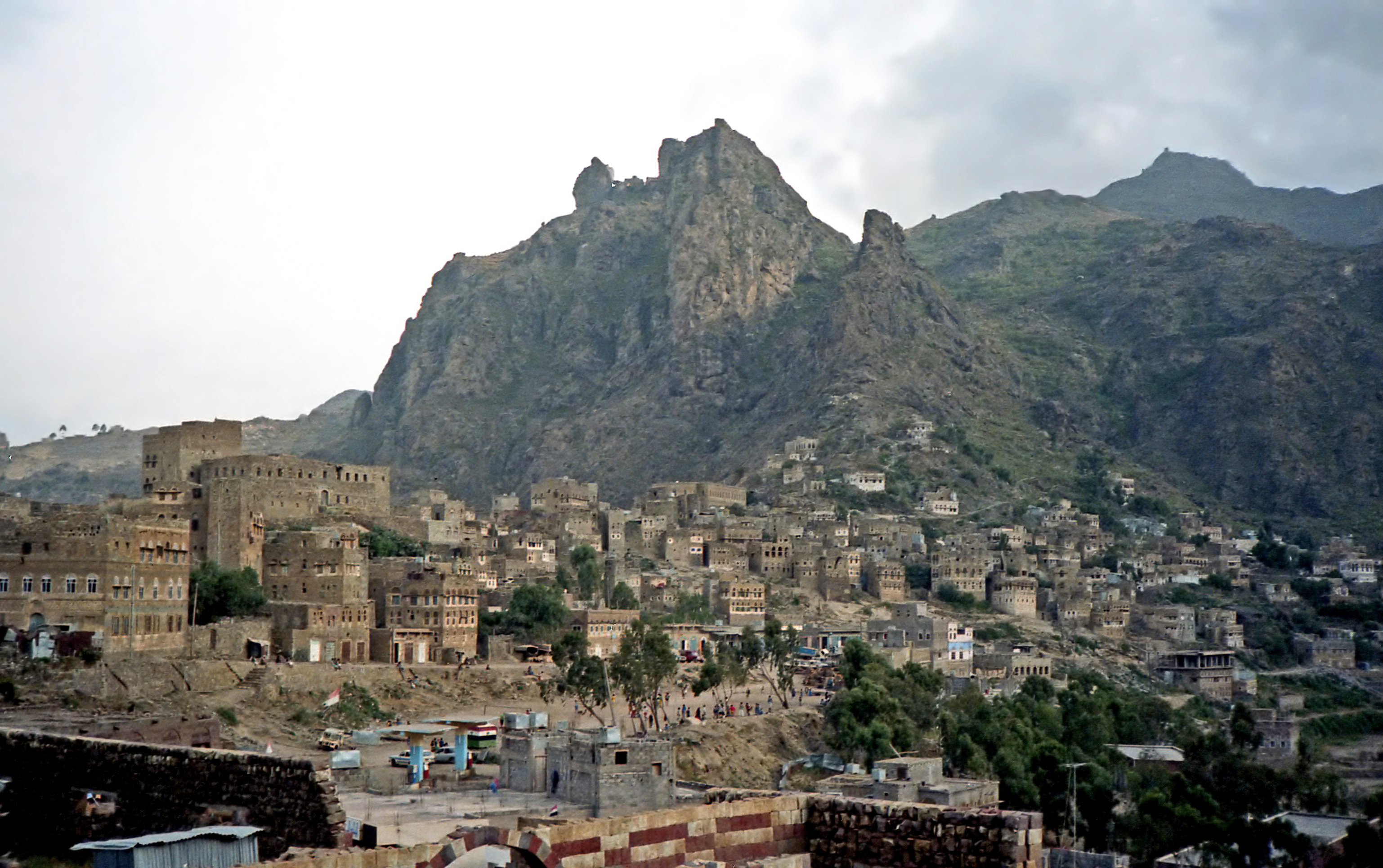 Village of Manakha, Yemen